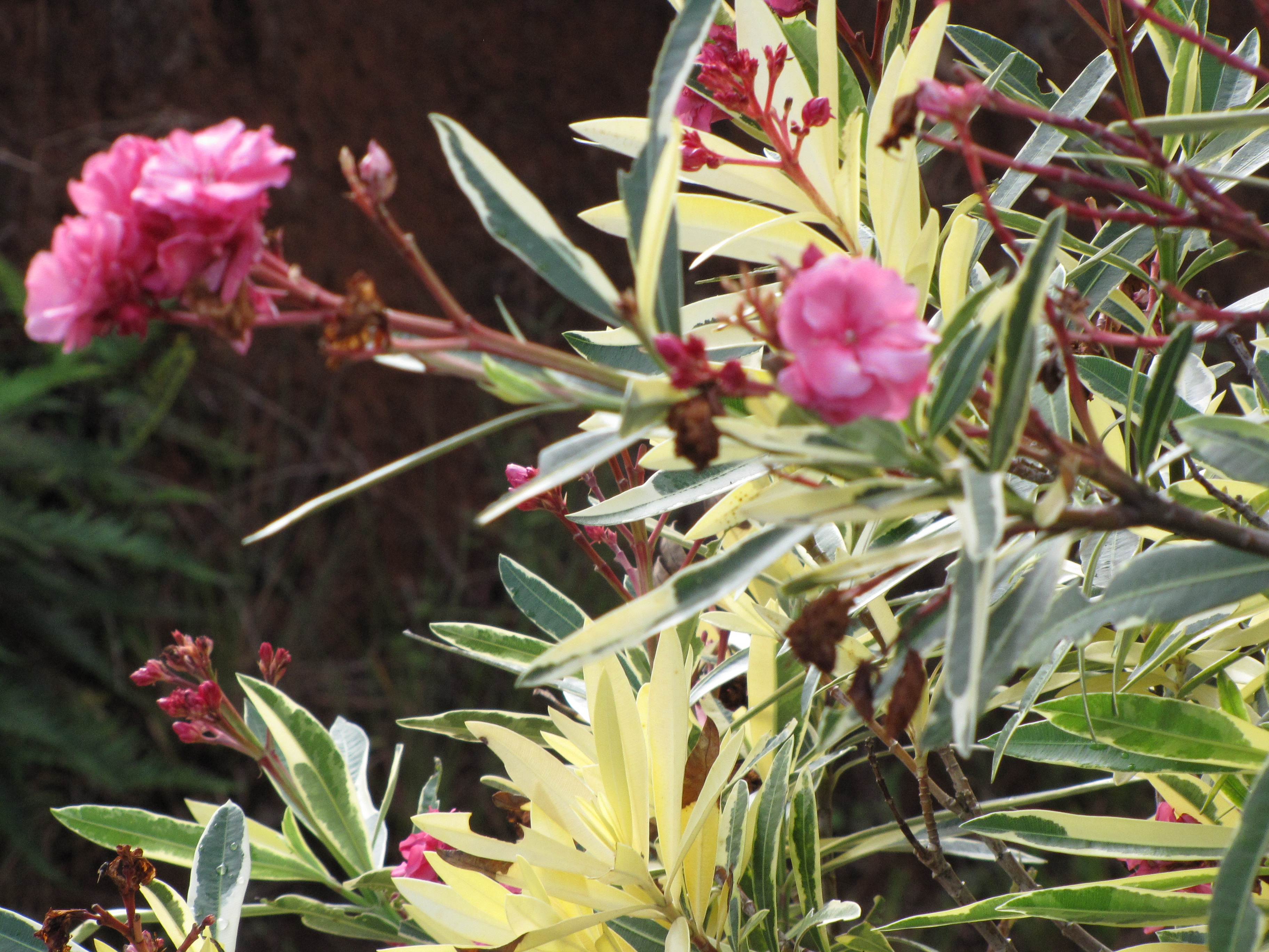 Nerium oleander (Oleander) Flowers and variegated leaves at Ulumalu Haiku, Maui, Hawaii. June 17, 2009 #090617-0851 Image Use Policy